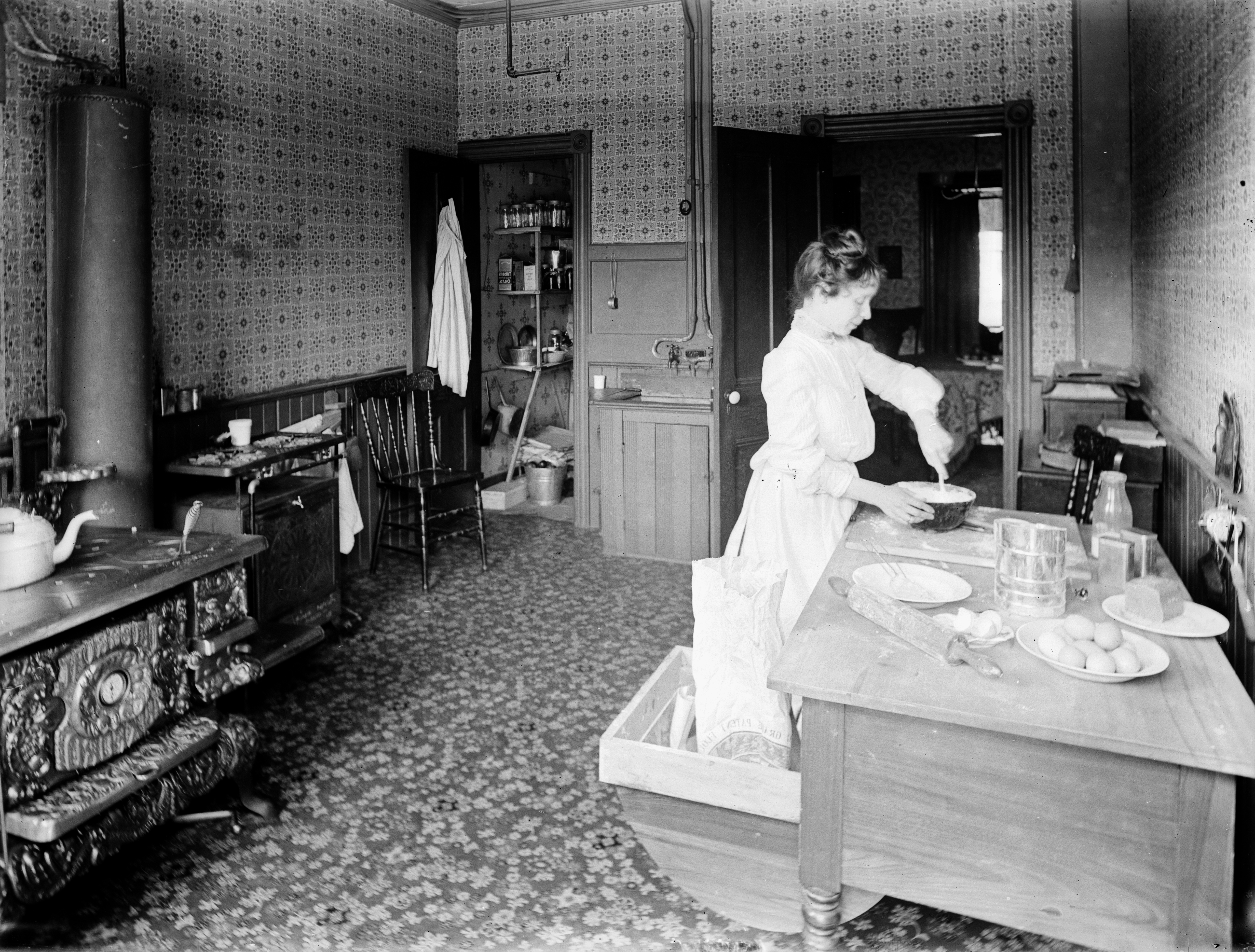 Mrs. Arthur Beales in the kitchen of the Beales home, Toronto, Ontario, Canada, circa 1903-1913.